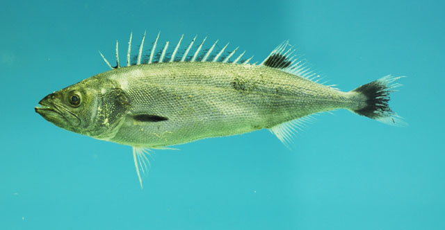 Ruvettus pretiosus collected in the Gulf of Mexico.